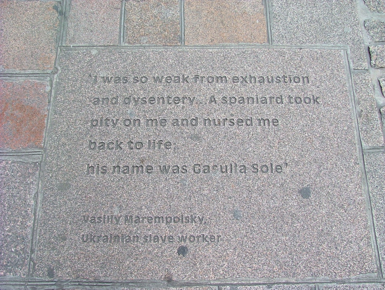 A memory plate with an inscription of Ukrainian slave worker at Saint Helier's street